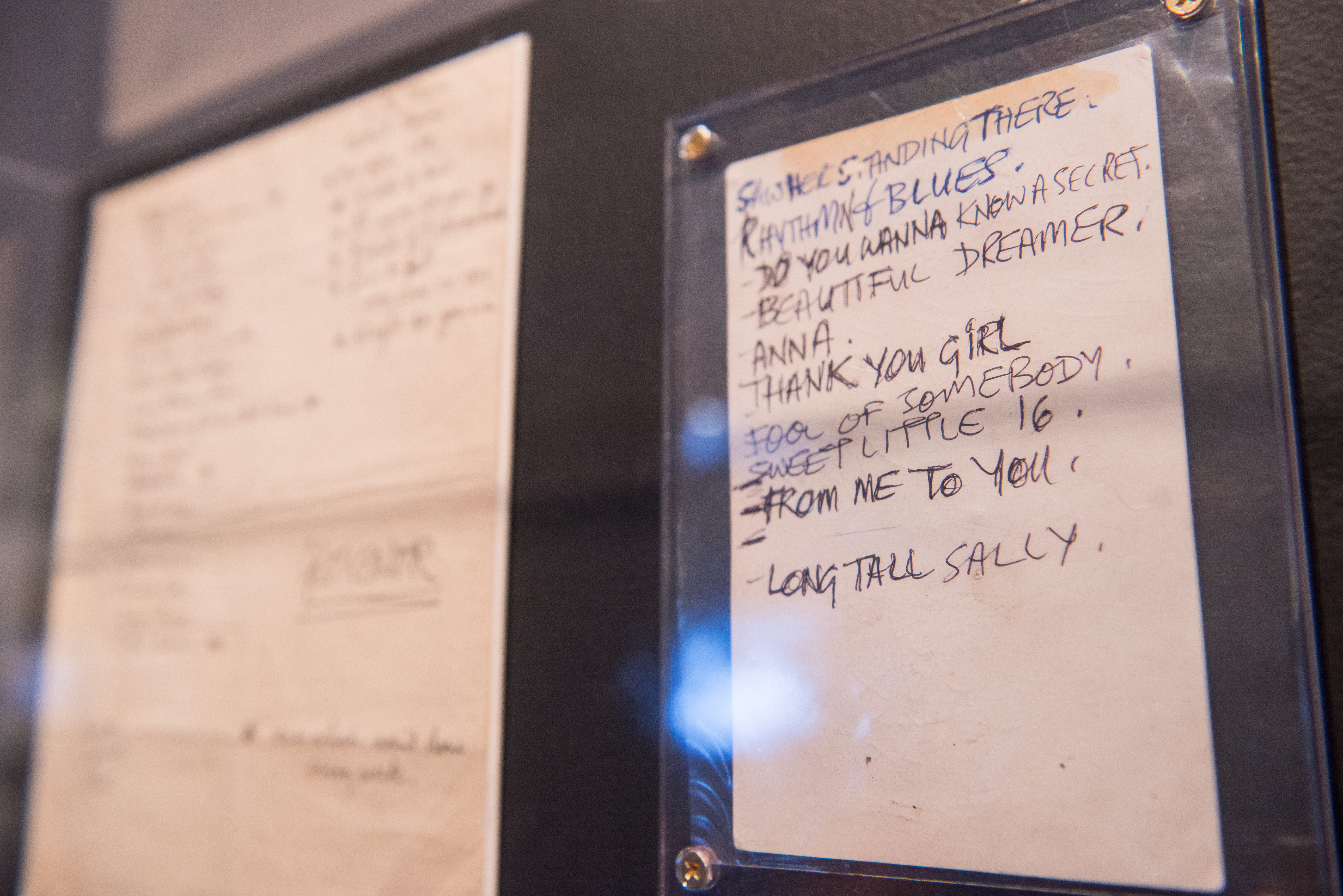 "Ladies and Gentlemen...The Beatles!", a traveling exhibit curated by the GRAMMY Museum® and Fab Four Exhibits, is open at the LBJ Presidential Library from June 13, 2015 through January 10, 2016. More than 400 pieces of memorabilia, records, rare photographs, tour artifacts, video, and instruments are on display, including John Lennon's missing Gibson J-160E guitar. The guitar is on display for two weeks only, from June 13 until June 29, 2015. Photo by Lauren Gerson. Flickr album "Exhibit: "Ladies and Gentlemen... the Beatles!"" by LBJ Foundation " "Ladies and Gentlemen…The Beatles!" is a traveling exhibit curated by the GRAMMY Museum® and Fab Four Exhibits that explores the impact The Beatles' arrival had on American pop culture, including fashion, art, advertising, media and music, from early 1964 through mid-1966 – when the British boy band was at its peak.On display will be more than 400 pieces of memorabilia, records, rare photographs, tour artifacts, video, and instruments from private collectors and the GRAMMY Museum, including the original Ludwig drum head Ringo played on "The Ed Sullivan Show." It even includes an oral history booth where visitors can leave their own impressions of the timeless group.Photos by Lauren Gerson. "